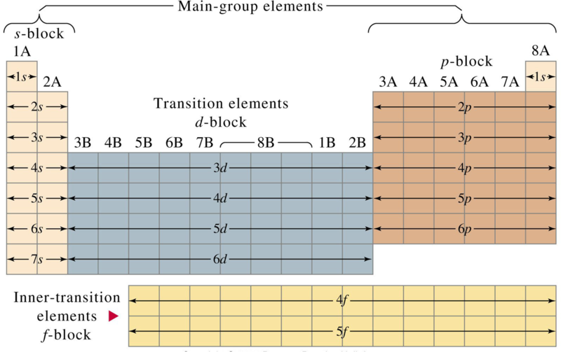 The structure of the perioic table.